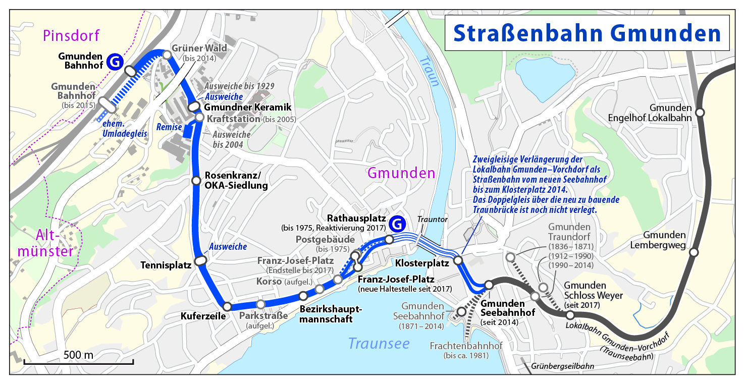 Map of the Gmunden tramway and Citybus network